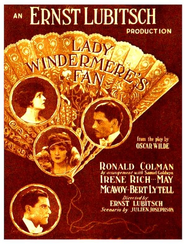 Theatrical poster for the American release of the 1925 film Lady Windermere's Fan, an adaptation of Oscar Wilde's 1892 play of the same name.